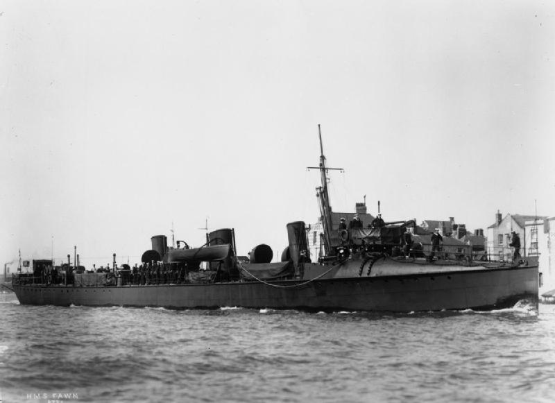 British Star class torpedo boat destroyer HMS Fawn.